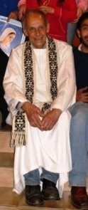 Father Ronaldo Muñoz